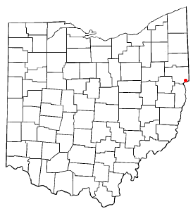 Locator map for La Croft, Ohio